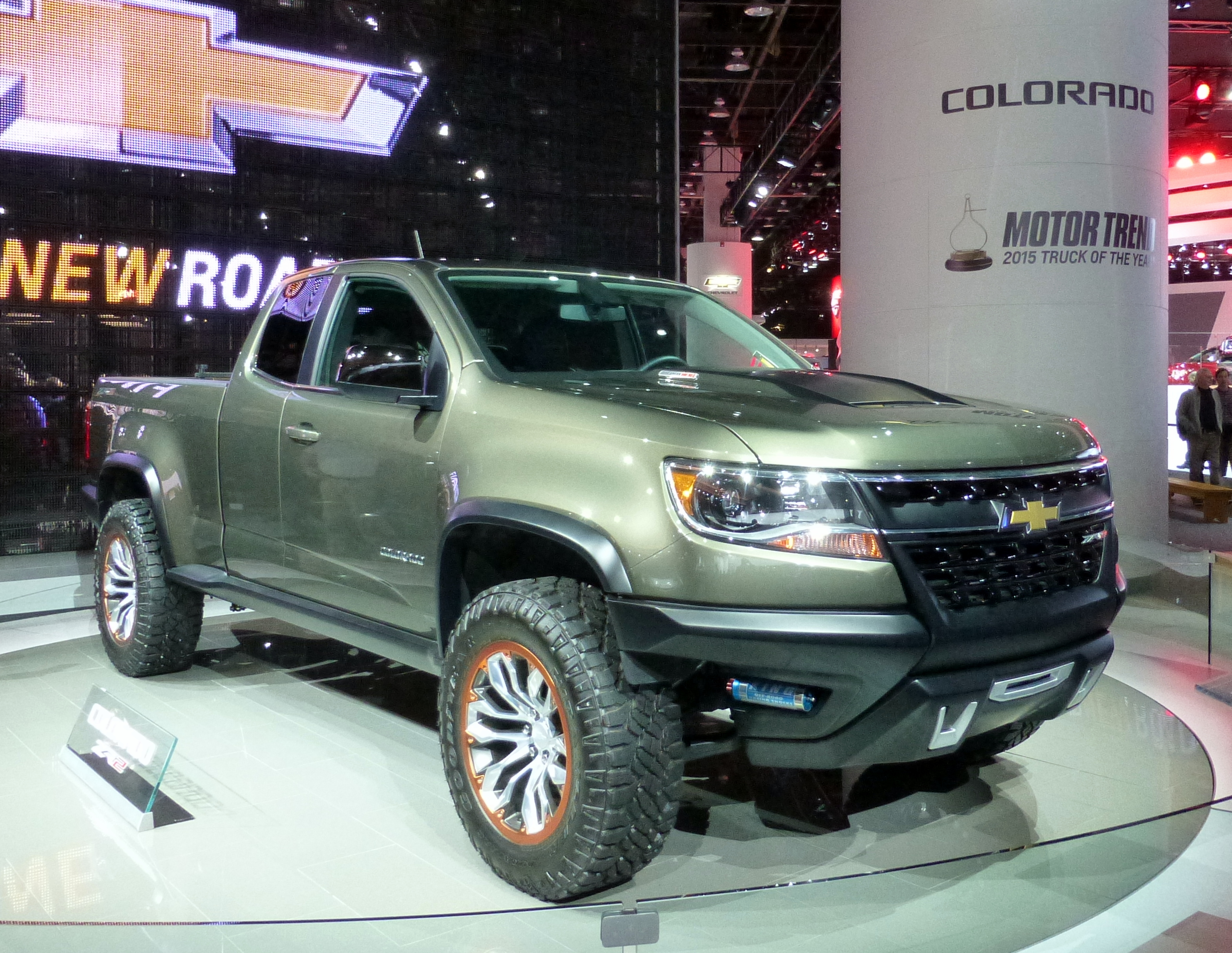 Chevy Colorado ZR2 Concept Truck